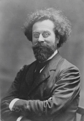 Claude Terrasse (1867-1923), French operetta composer